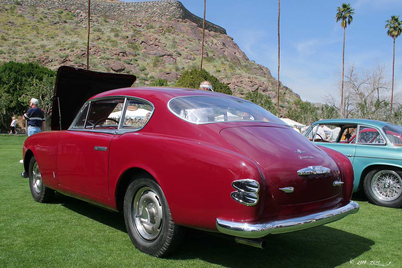 1951 Maserati A6G 2000 Coupé Pininfarina. 2008 Desert Classic Concours d'Elegance in Palm Springs, California.